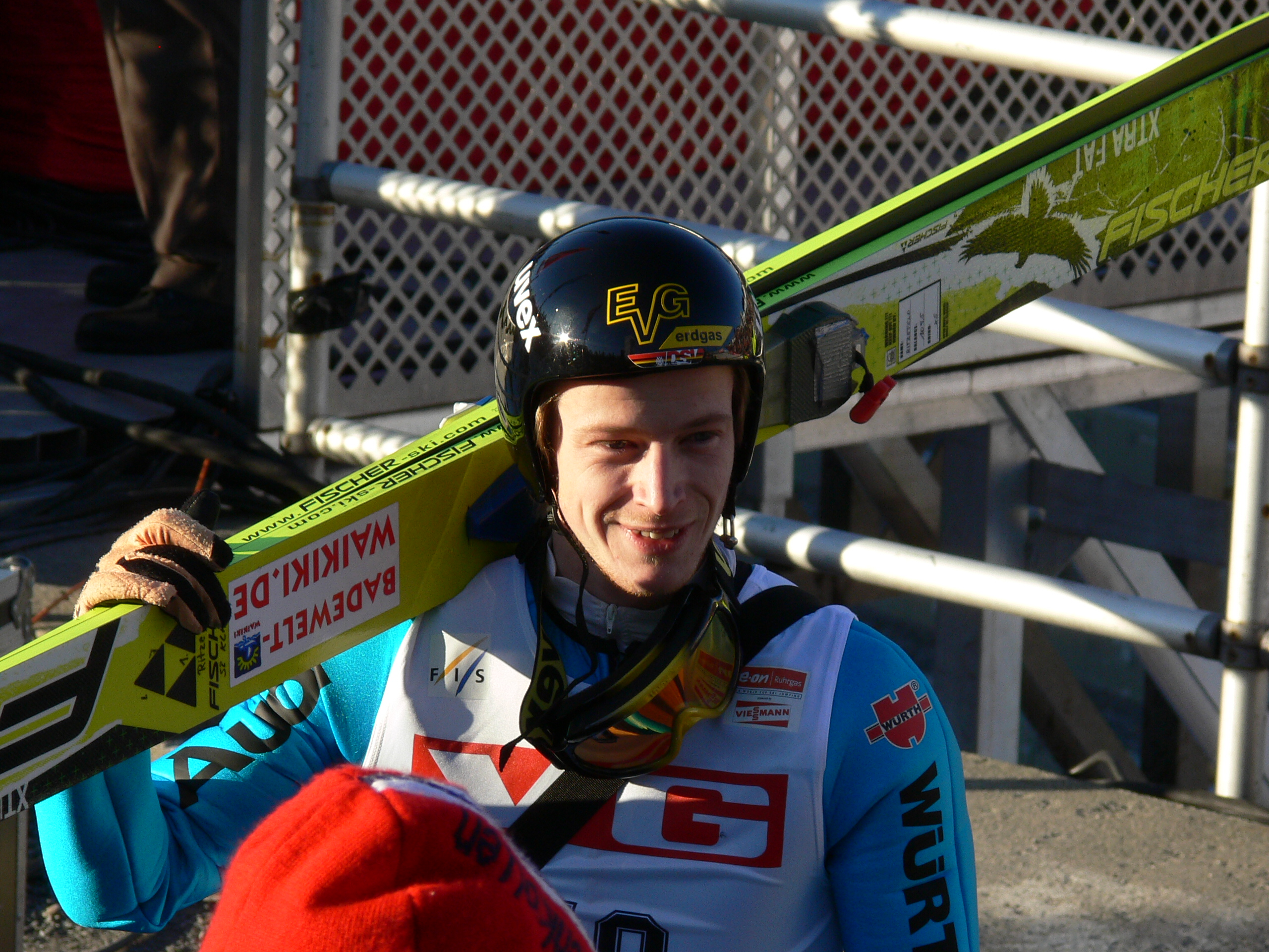 From the 2007 World Cup ski jumping event in Holm